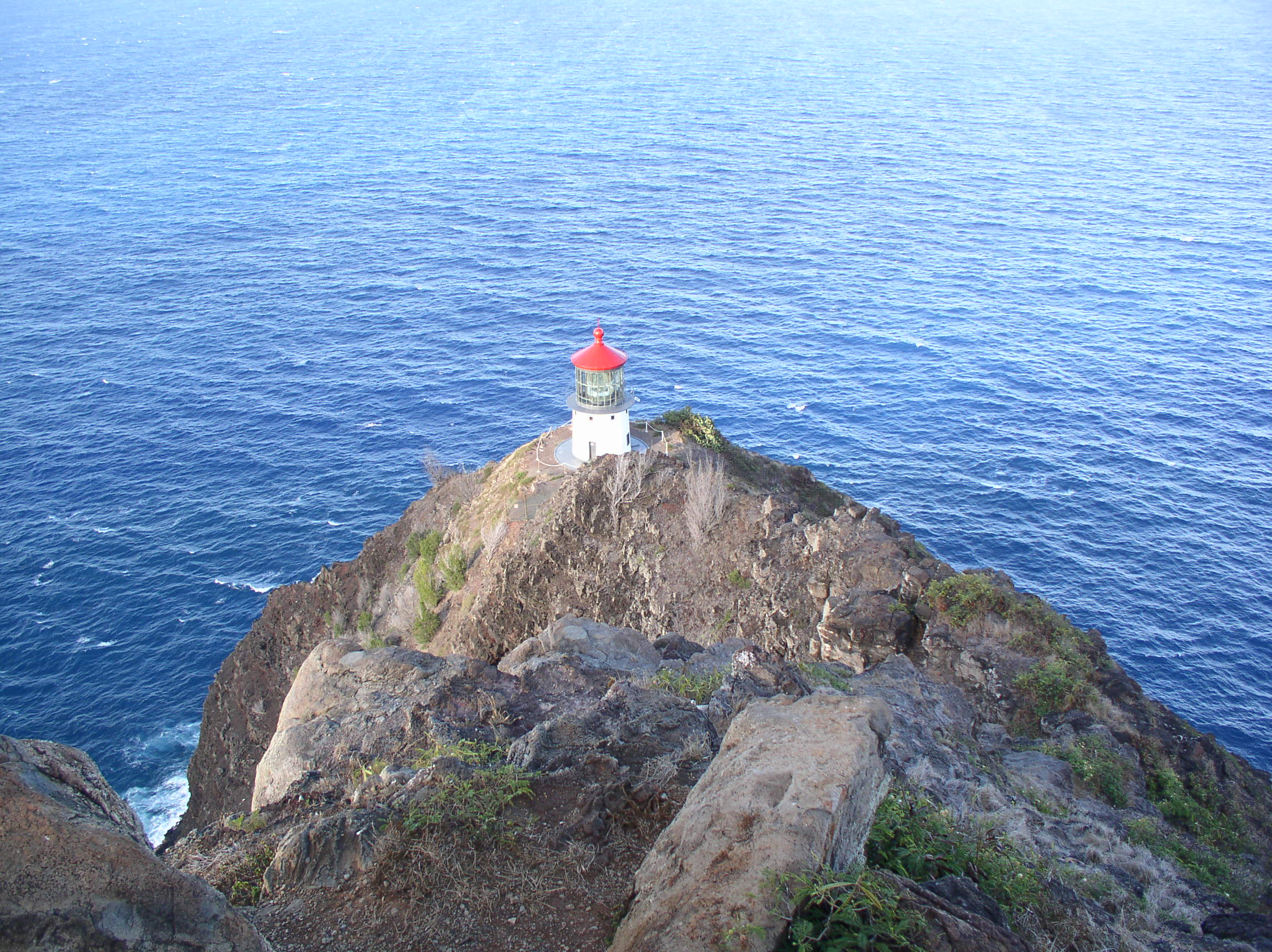 Makapuu Point, from its highest point down toward the lighthouse. On island of Oahu in Hawaii.